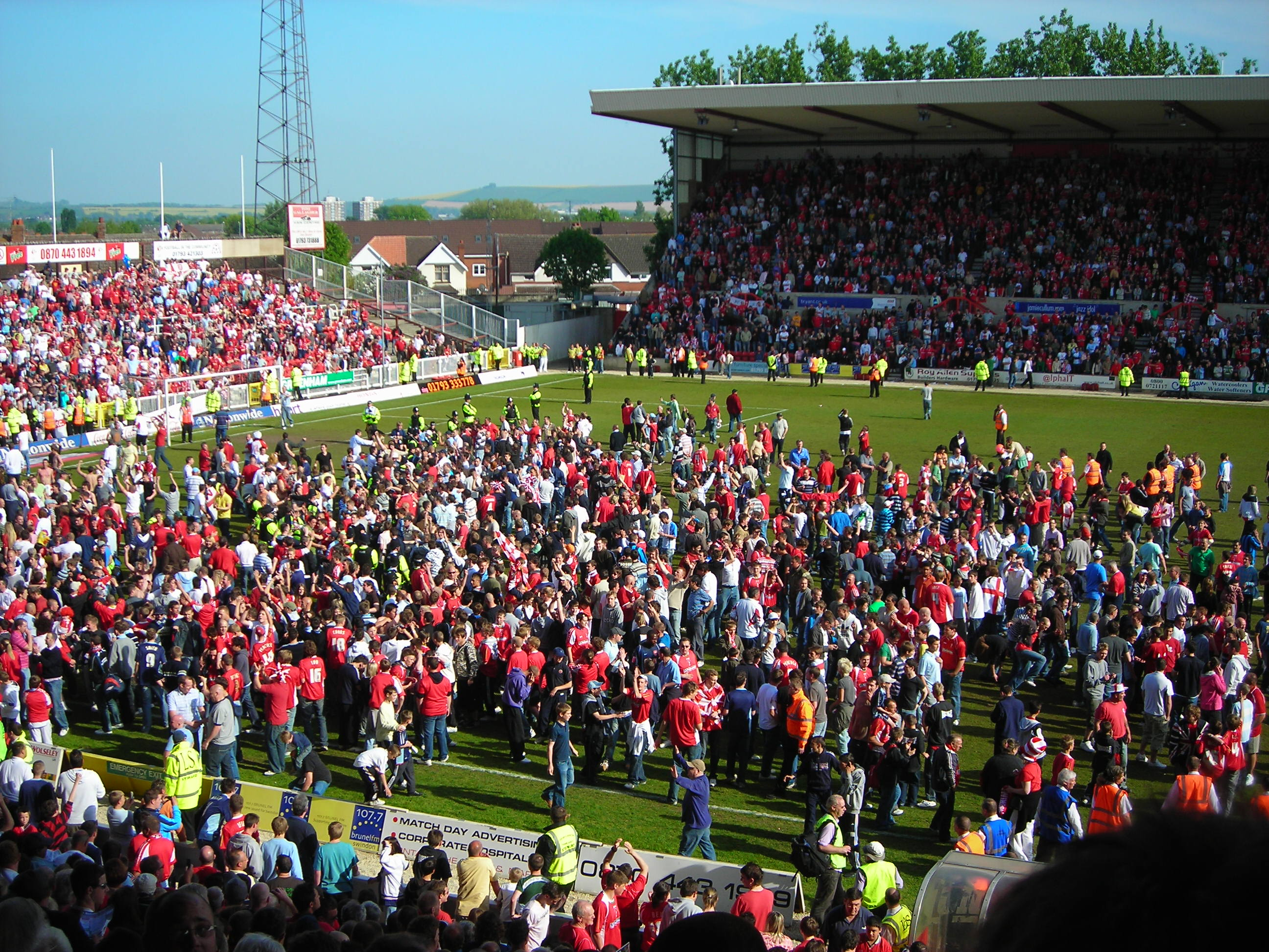 STFC promotion 2007